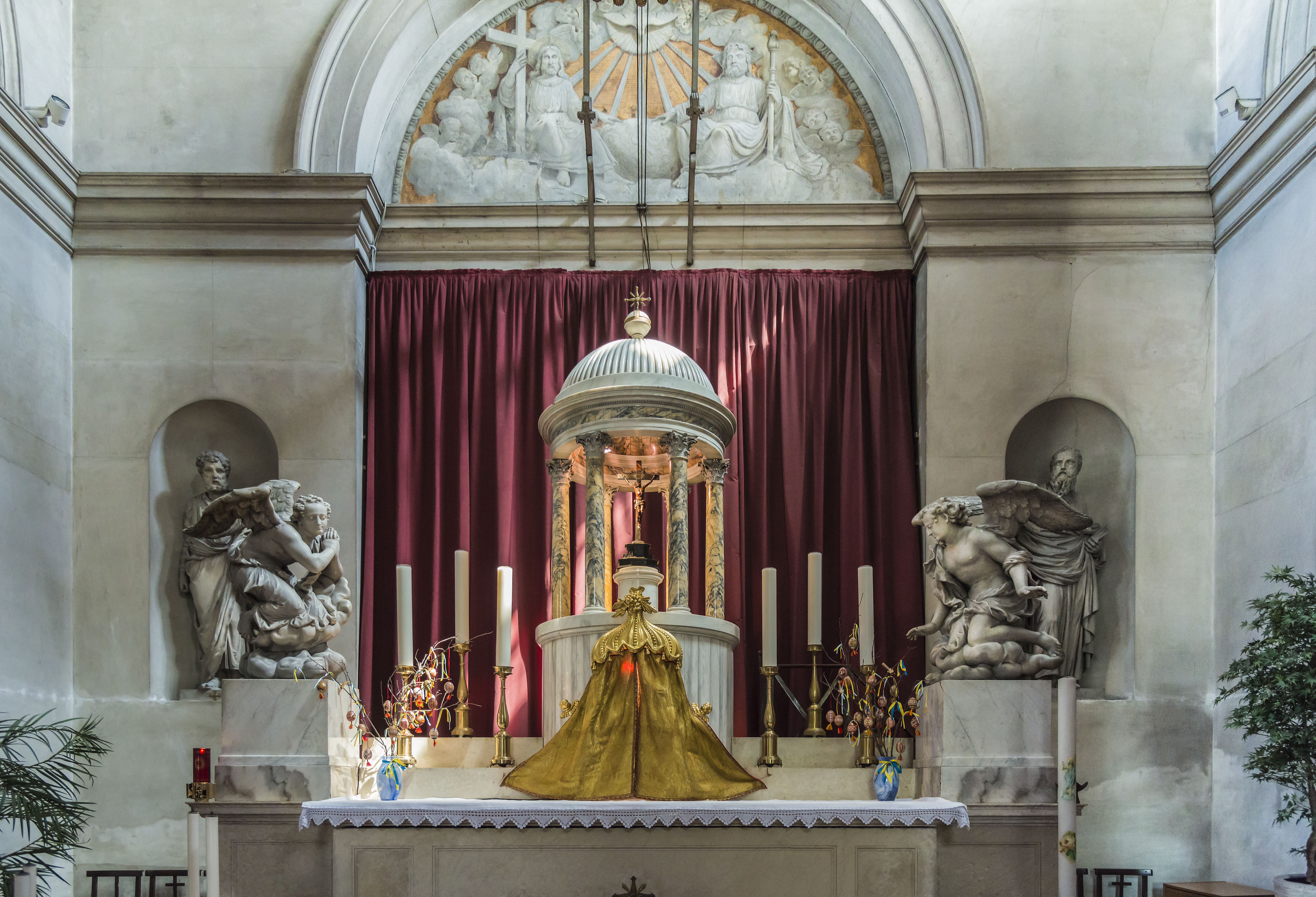 Church of Nome di Gesù in Venice - Maine altar